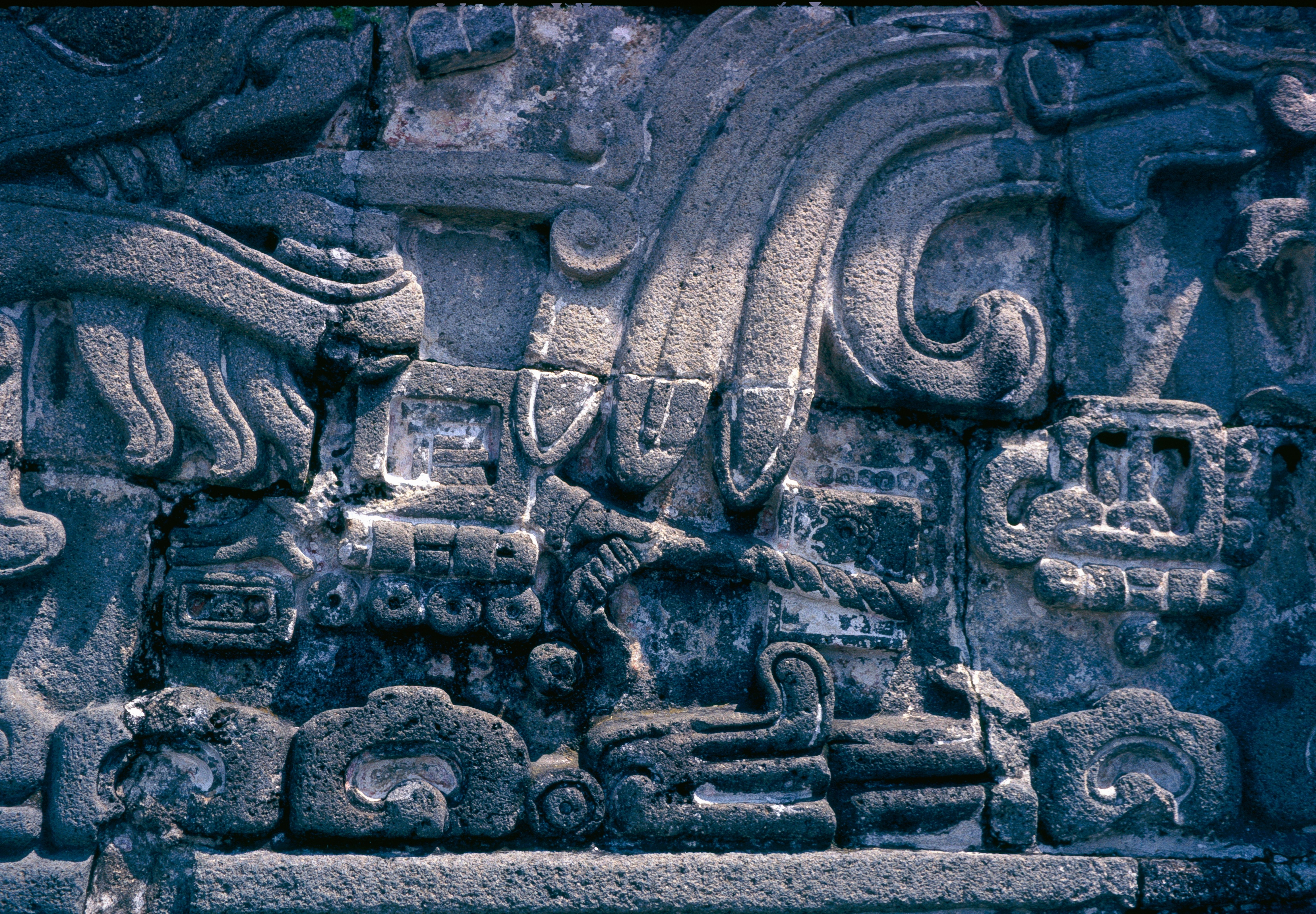 Xochicalco, Morelos, Mexico: symbolic scene combining two different ways of representing calendrical signs, Pyramid of the Feathered Serpent